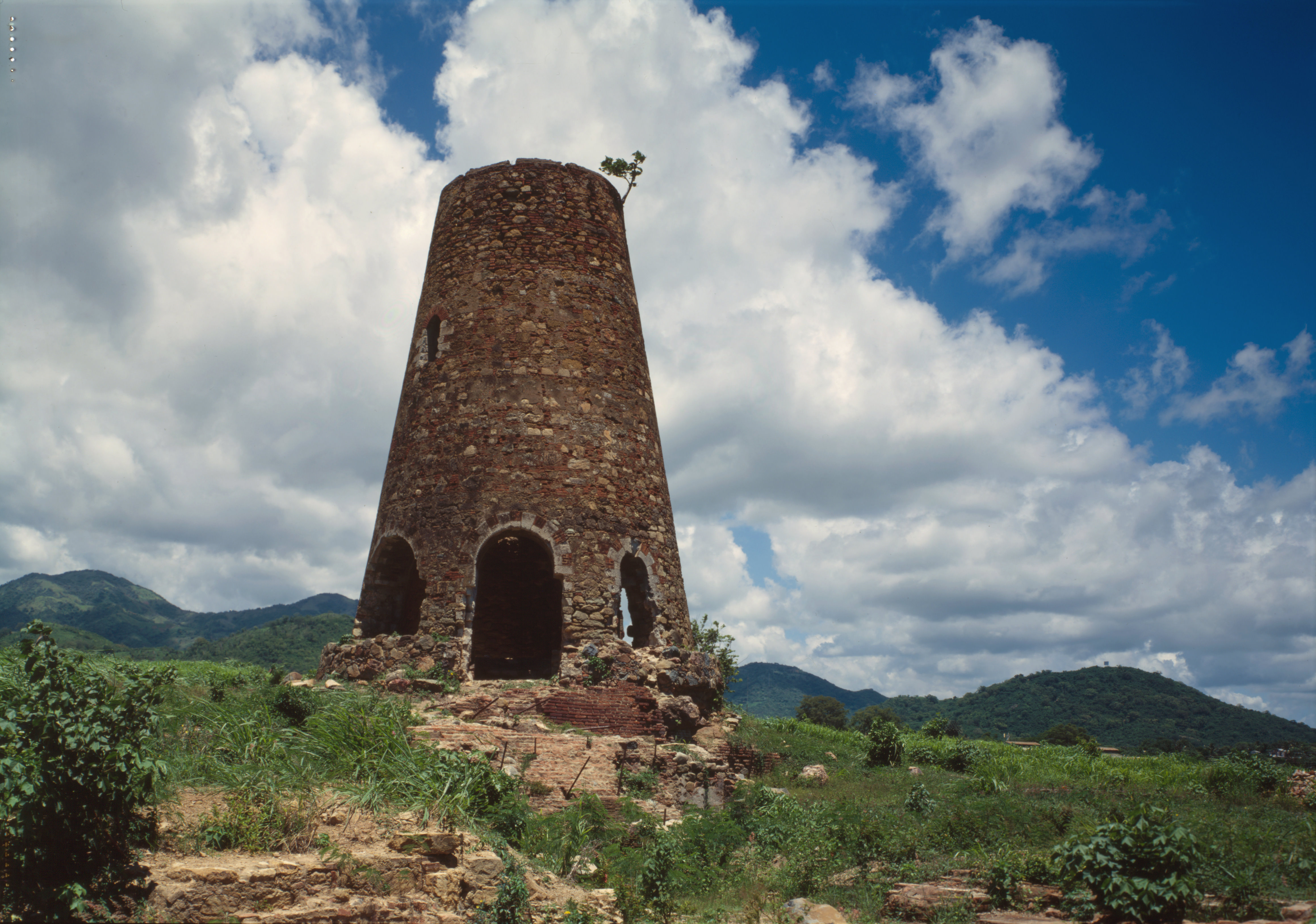 Hacienda Azucarera Vives, Barrio Machete (Guayama County, Puerto Rico) cropped This image or media file contains material based on a work of a National Park Service employee, created as part of that person's official duties. As a work of the U.S. federal government, such work is in the public domain in the United States. See the NPS website and NPS copyright policy for more information. Creator: U.S. Department of the Interior, National Park Service, Historic American Engineering Record. Survey number HAER PR,38-MACH,1-28 Source: U.S. Library of Congress, Prints and Photographs Division, "Built in America" Collection. Copyright: "The original measured drawings and most of the photographs and data pages in HABS/HAER/HALS were created for the U.S. Government and are considered to be in the public domain."